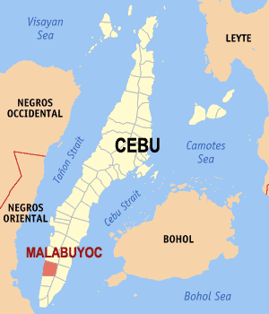 Map of Cebu showing the location of Malabuyoc